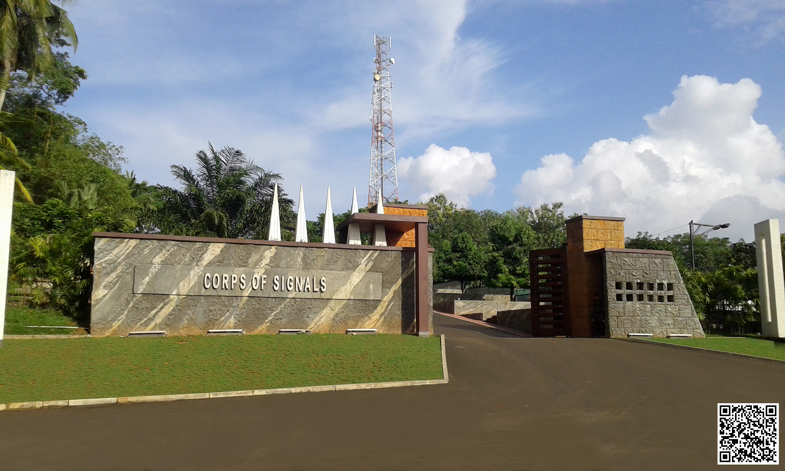 රෙජිමේන්තු මධ්‍යස්ථානය ශ්‍රි ලංකා සංඥා බලකායෙහි නව පිවිසුම් දොරටුව